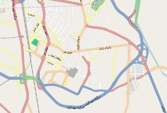 Rey, Iran map